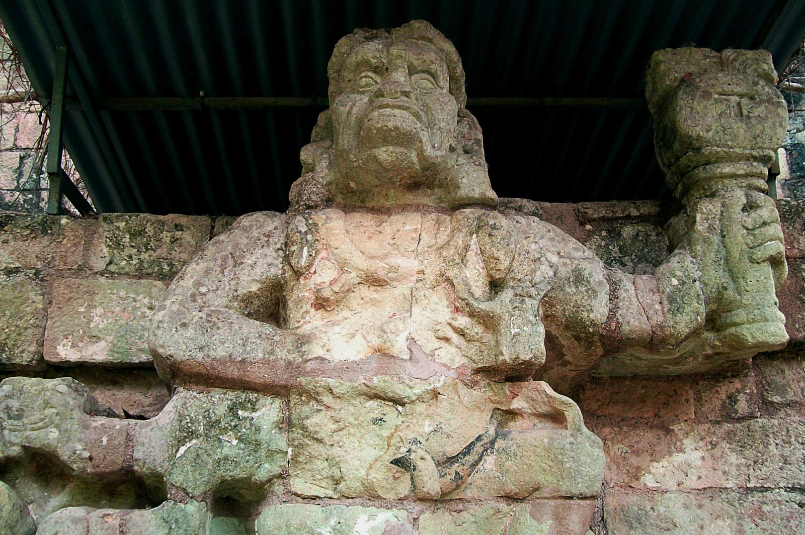 World Heritage Site of Copan